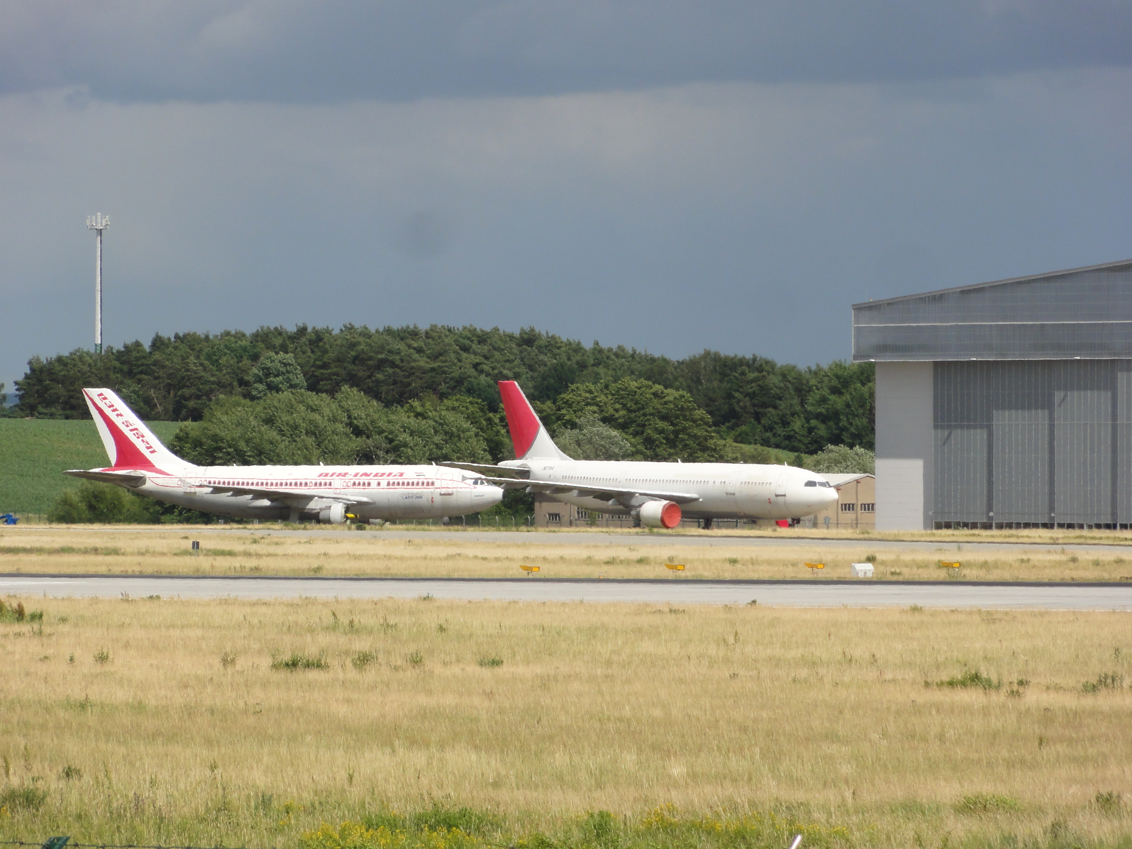 The Dresden Airport.